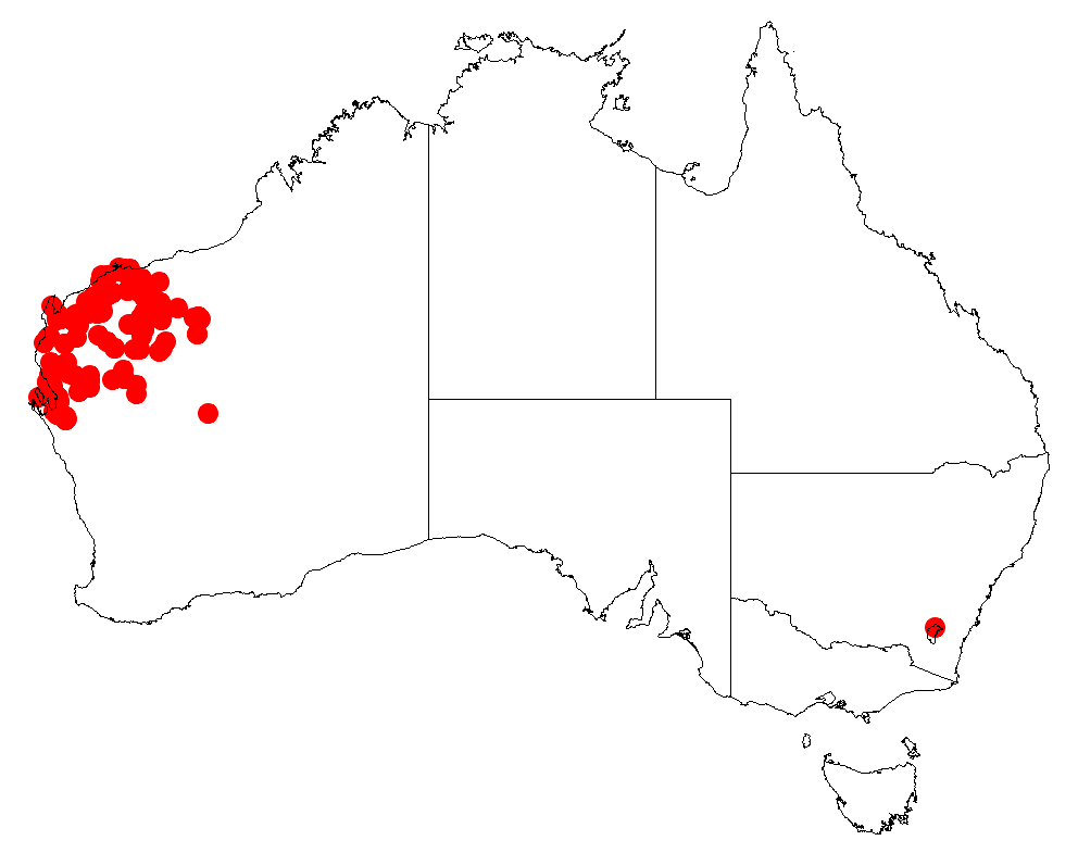 Acacia xiphophylla occurrence data from Australasia Virtual Herbarium downloaded from on 8 December 2018